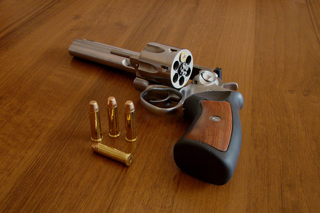 Ruger G-100 (KGP-161) & .357 magnum ammunition